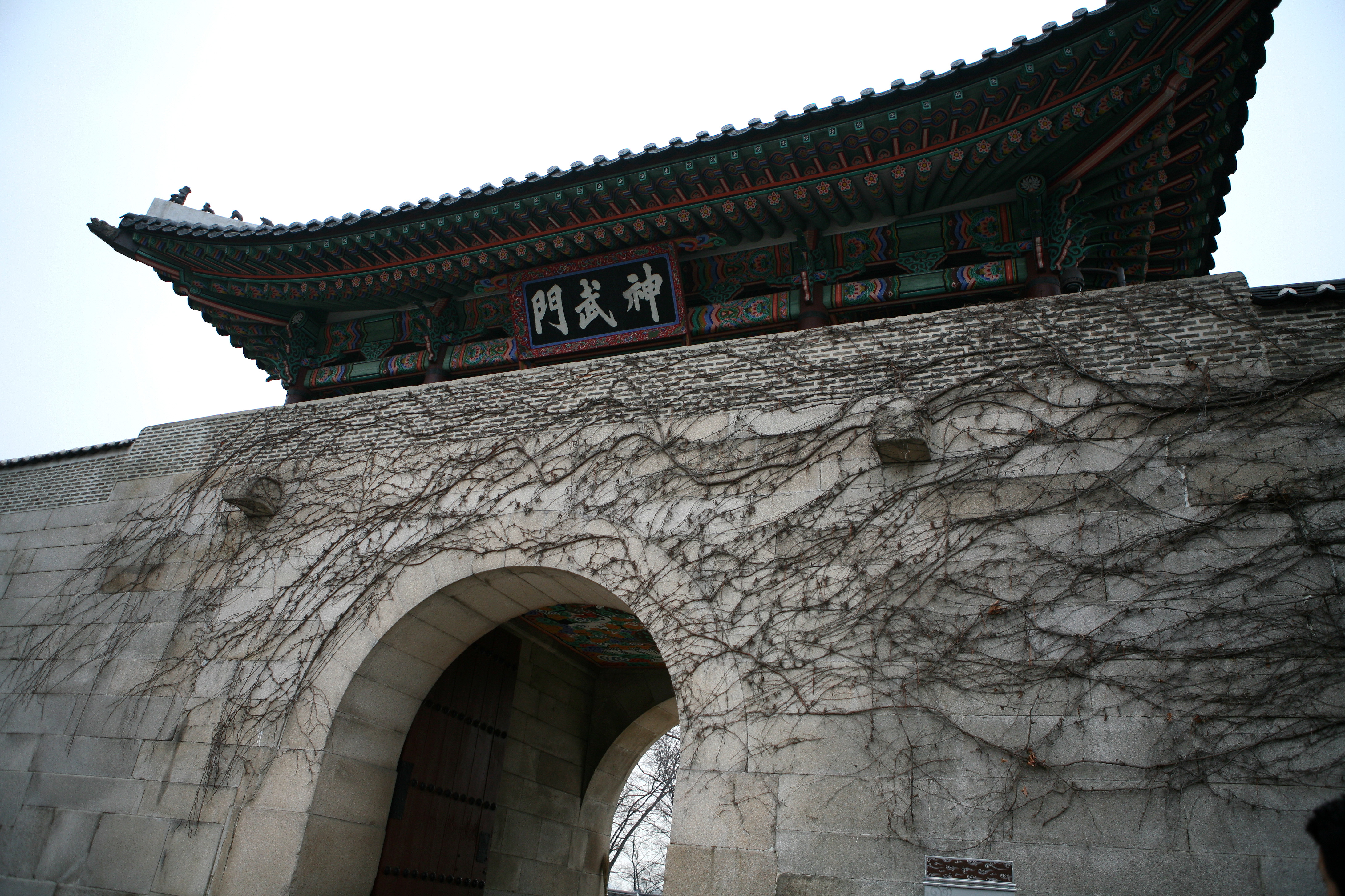 Sinmumun (Gate) located on the north side of Gyeongbokgung (Palace) in Seoul, South Korea